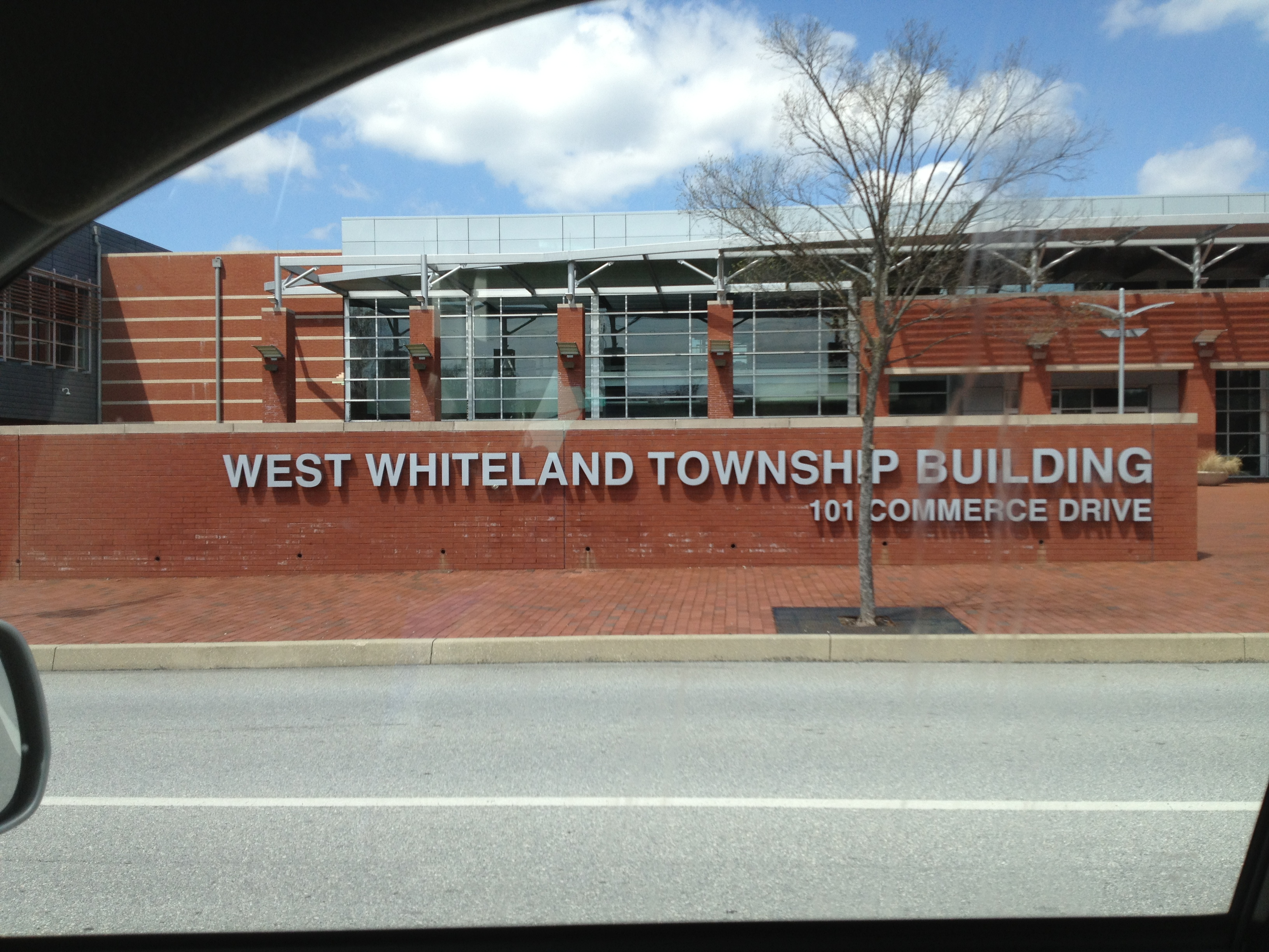 my own work